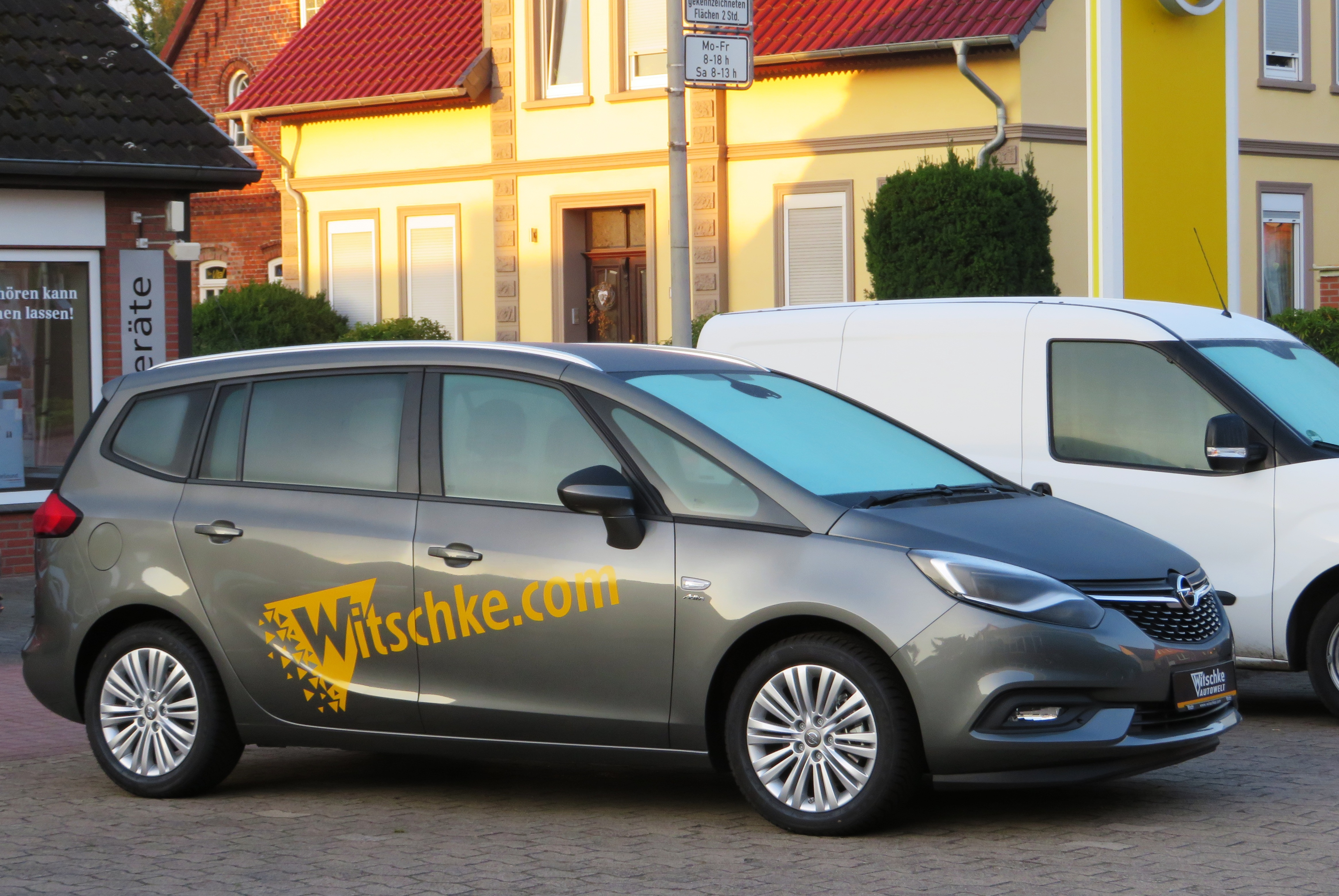 Opel Zafira post facelift 2016